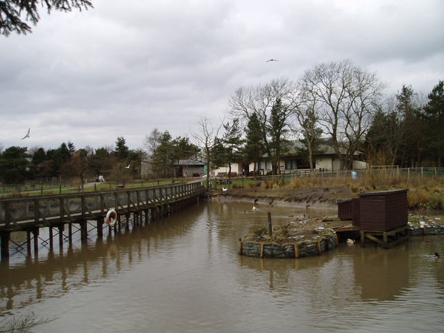 Palacerigg Country Park. This country park on the southern outskirts of Cumbernauld was created in 1974 in an area which was an upland farm, It is now home to a rare breeds farm, education centre, nature trails and a treetop walkway through a forest planted since the park was created.